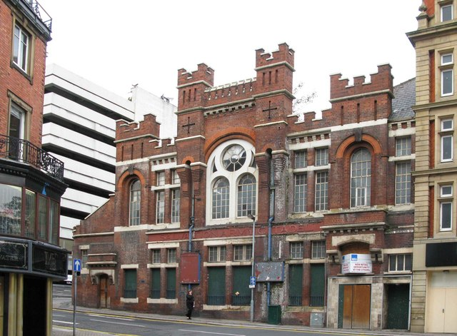 Salvation Army Citadel, Sheffield 1894-2000 on Cross Burgess Street.